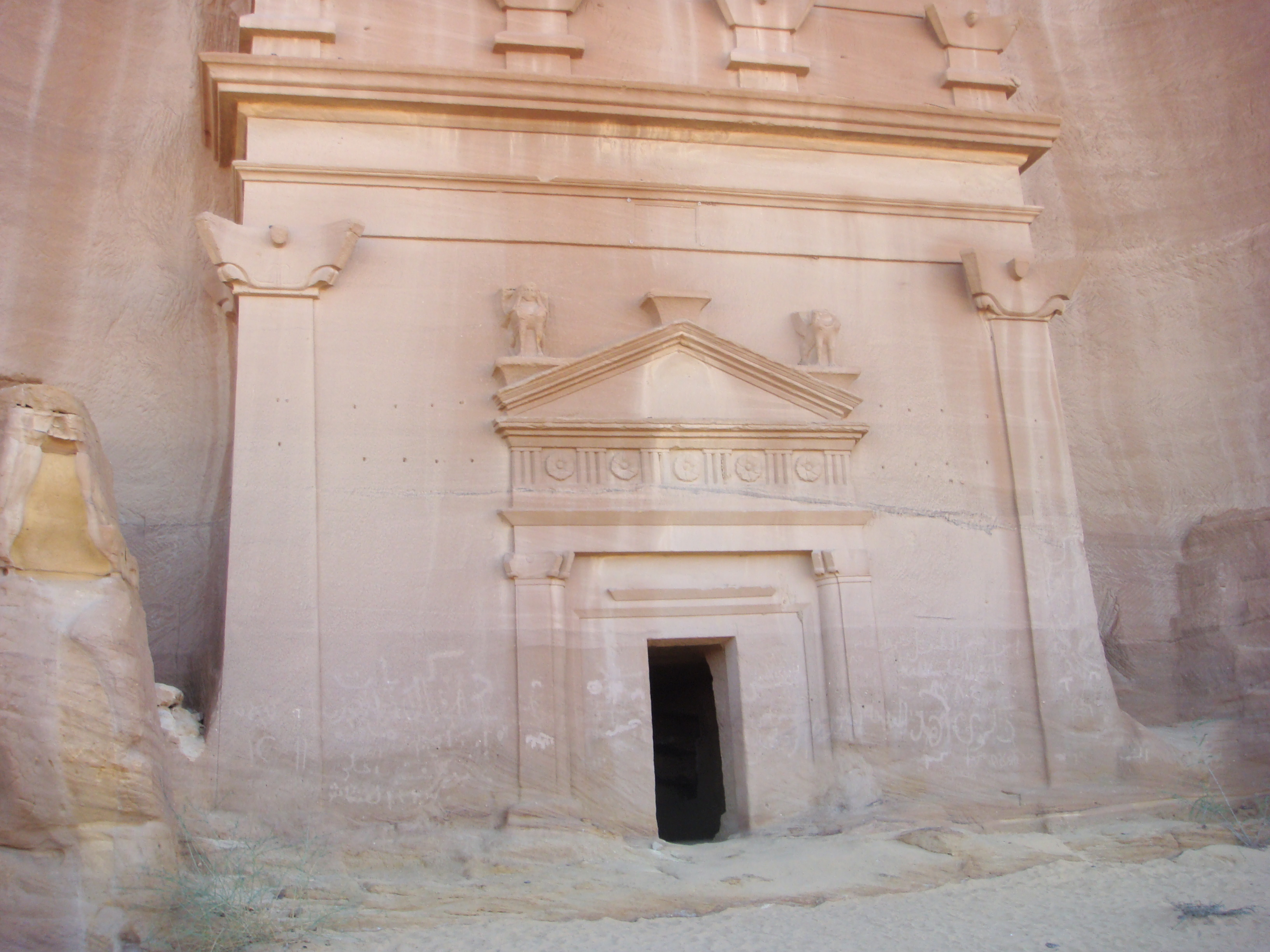 Fantastic Walls 2